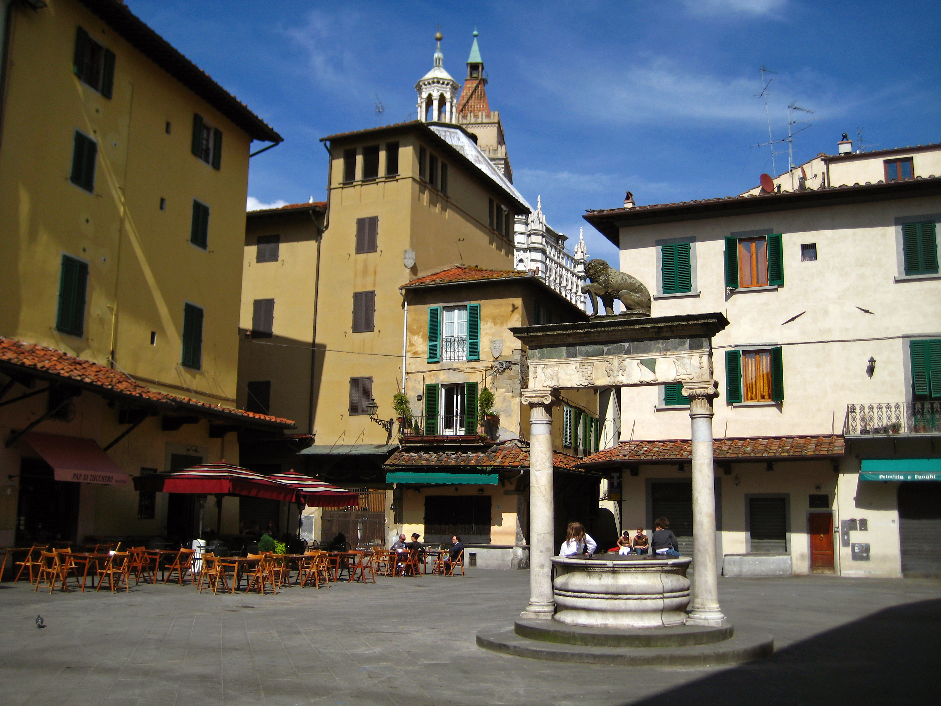 Piazza della Sala and pozzo del Leoncino, Pistoia, Tuscany